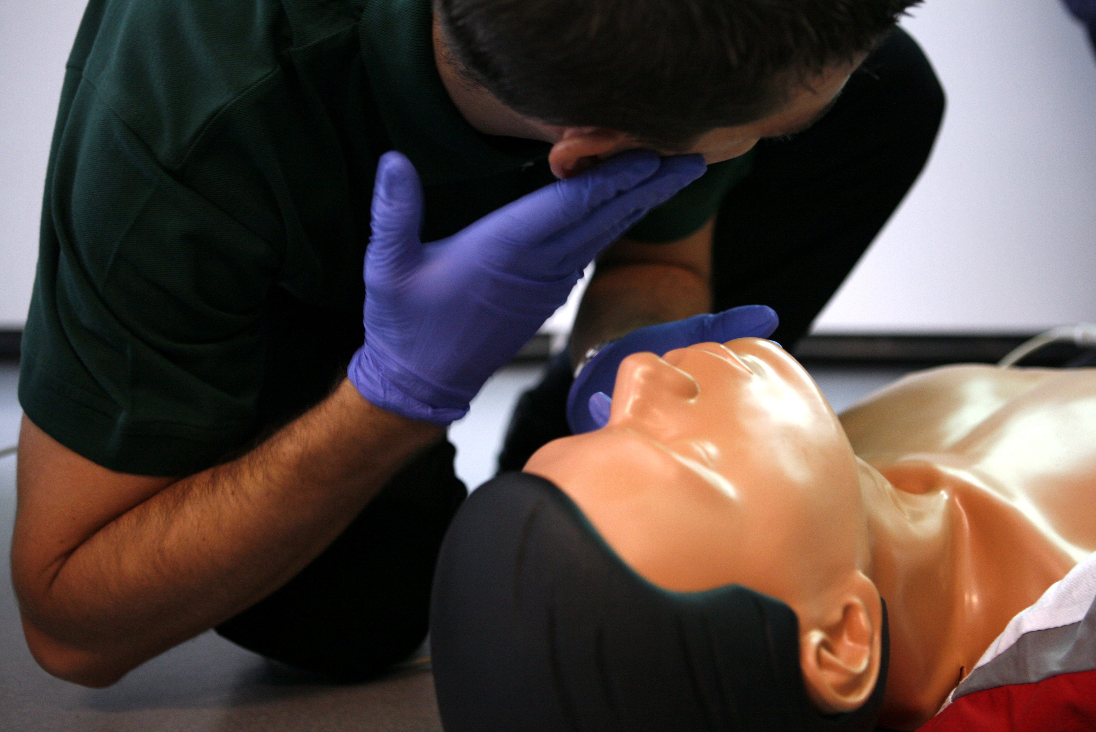 CPR training